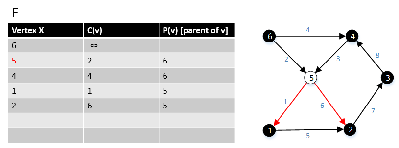 MBSA-GT example 2